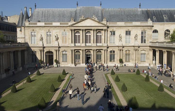 Hôtel de Soubise et cour (site de Paris). Archives nationales (France)